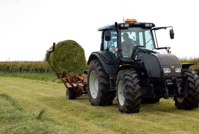 Making silage for feeding animals in winter on Lowsteads Farm near Longhoughton in Northumberland, Great Britain. Marked as 'Low Stead' on the OS 1:50000 map, Lowsteads Farm is half-a-mile south of Longhoughton village. In this photograph, the tractor-towed implement has picked up a bale of grass and is lifting and tilting it into the cradle where it will be encased in polywrap.Silage is animal fodder that is harvested while still green and kept succulent by partial fermentation. This can be done in a silo (hence the name) or in a silage clamp. More recently, the practice has been to ferment silage by wrapping baled harvested fodder - usually grass in the UK - in polywrap plastic sheeting.